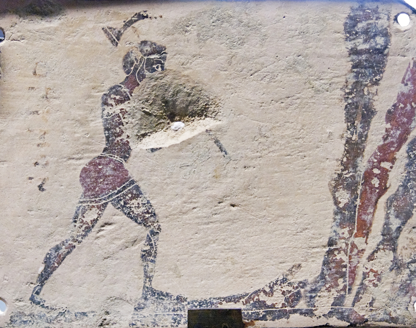 Clay extraction (?). Side A from a Corinthian black-figure pinax, 575–550 BC. From Penteskouphia.